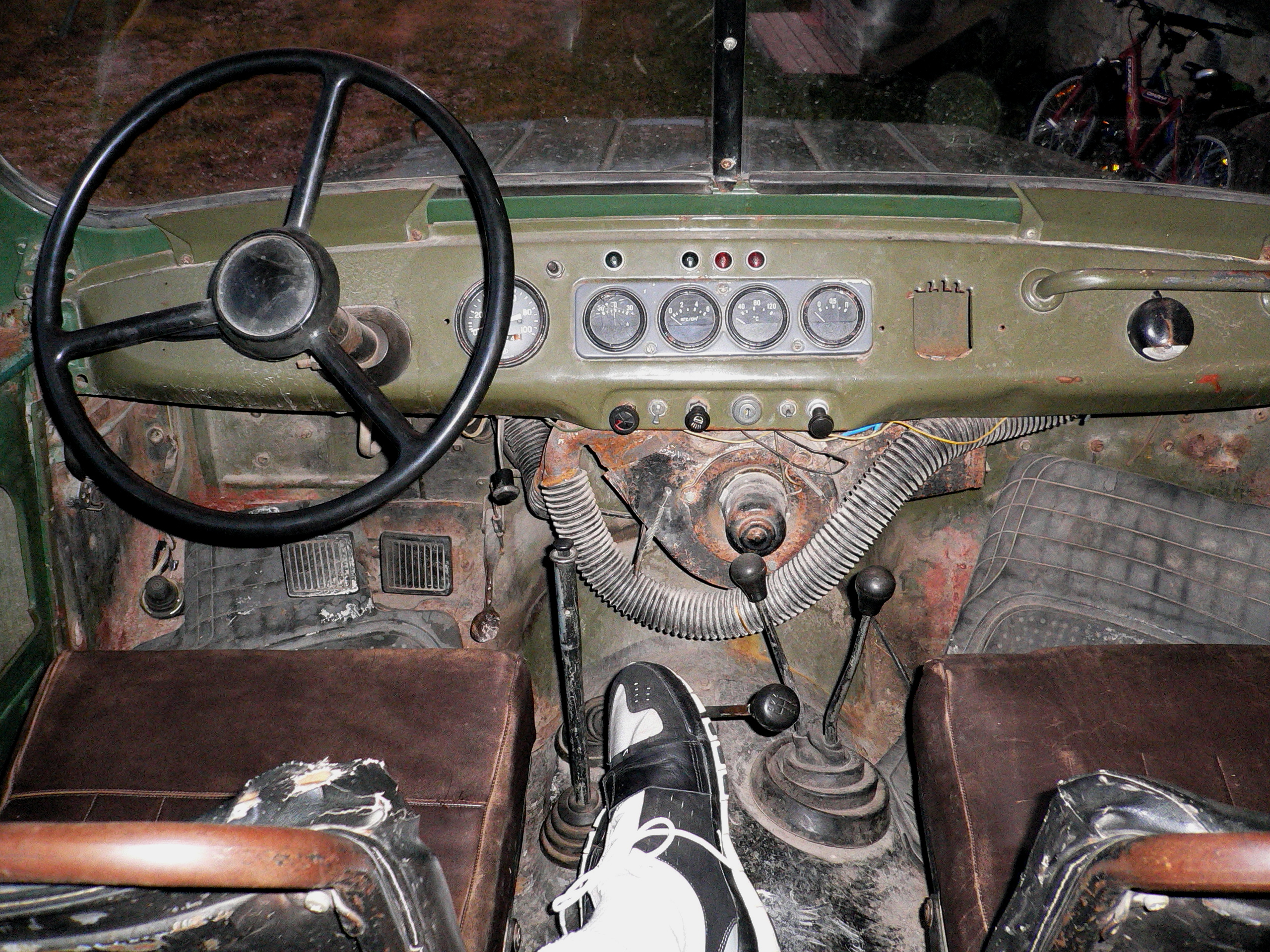 We started the jeep’s engine with a screwdriver.